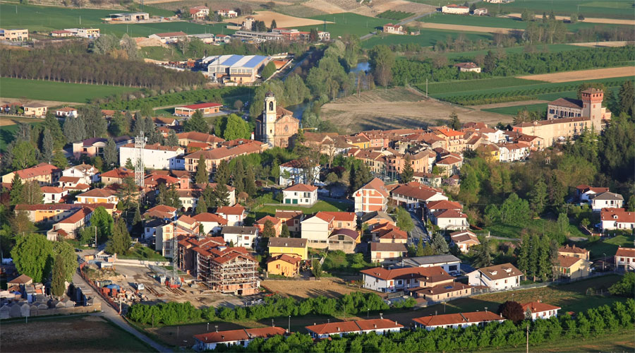 Bubbio, Asti, Italy